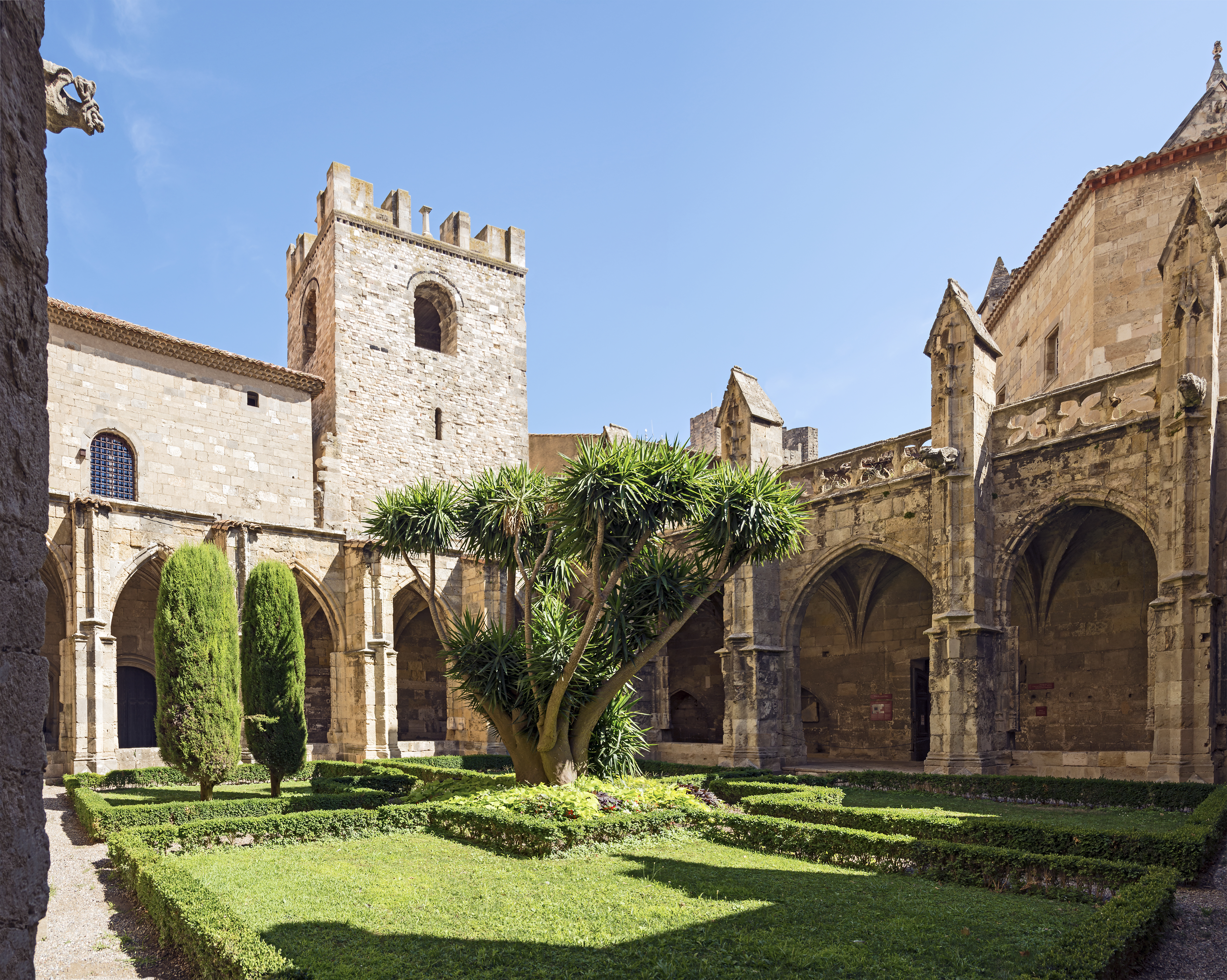 Cathedral Saint-Just-et-Saint-Pasteur Narbonne. Cloister Archbishop of Narbonne and tower of the church of Theobald.